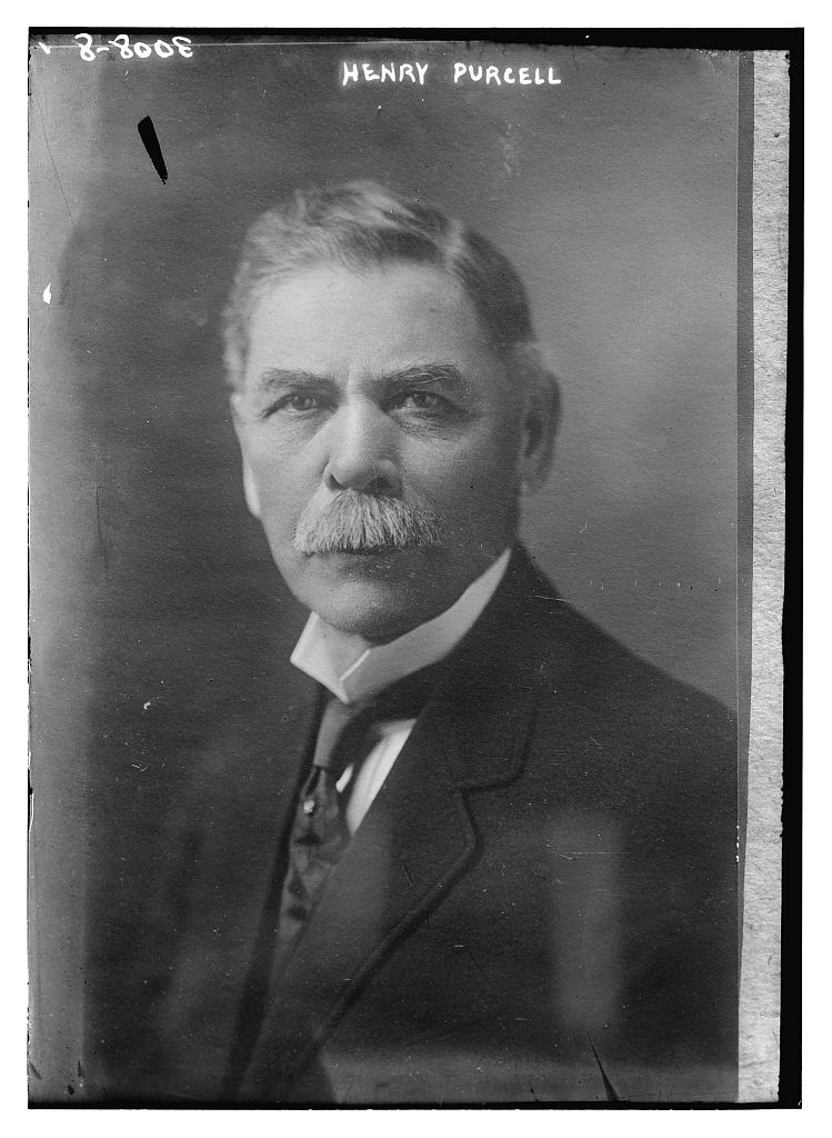 Bain News Service,, publisher. Henry Purcell [between ca. 1910 and ca. 1915] 1 negative : glass ; 5 x 7 in. or smaller. Notes: Title from unverified data provided by the Bain News Service on the negatives or caption cards. Forms part of: George Grantham Bain Collection (Library of Congress). Format: Glass negatives. Repository: Library of Congress, Prints and Photographs Division, Washington, D.C. 20540 USA, General information about the Bain Collection is available at Persistent URL: Call Number: LC-B2- 3008-8